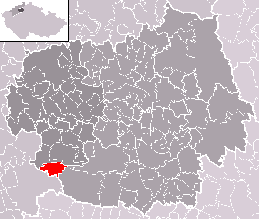 Location of Evaň municipality within Litoměřice District and administrative area of Lovosice as a Municipality with Extended Competence.